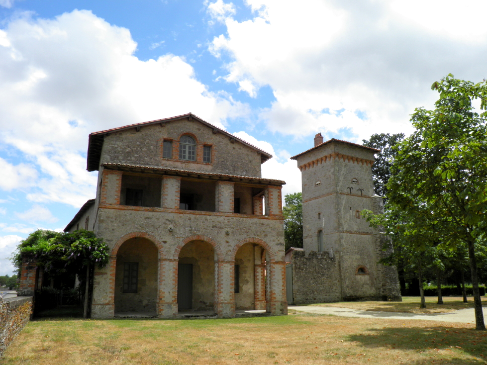 House of the gardener - Park of La Garenne Lemot, Clisson-Gétigné, Loire-Atlantique, France